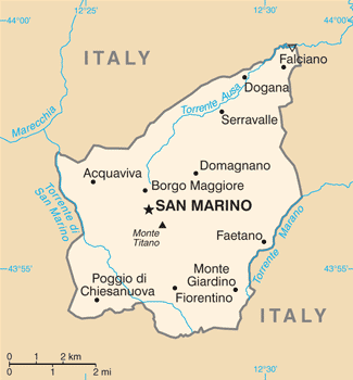 Map of San Marino.